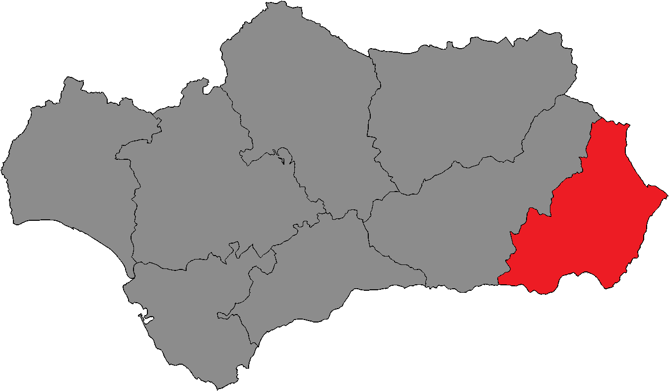 Andalusian Parliament district of Almería.